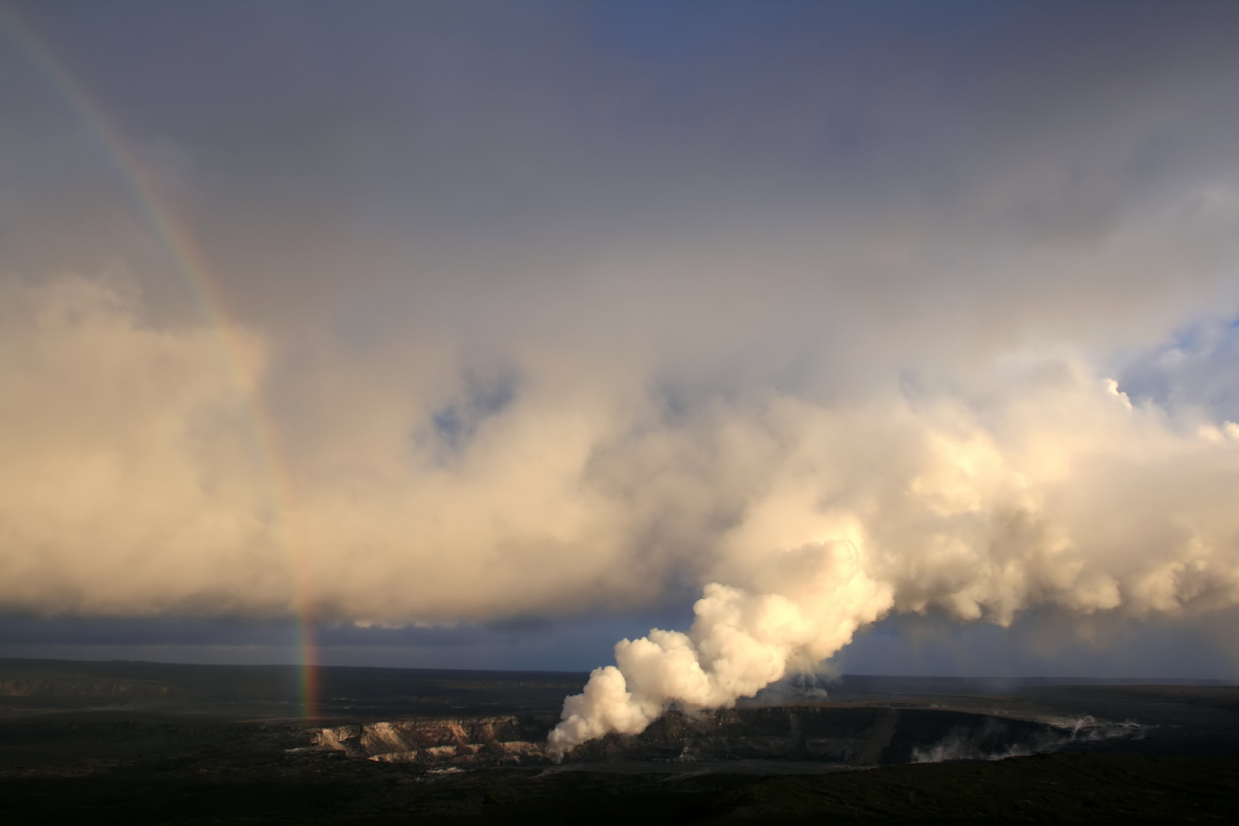 Rainbow and Volcanic ash with sulfur dioxide emissions from the Halema`uma`u vent, Kīlauea